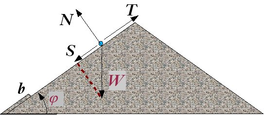 Statics of particle upon a conical heap